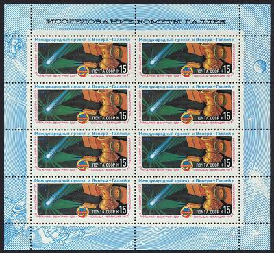 Stamp of USSR